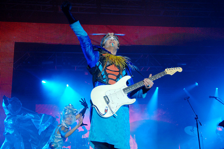 Australian band Empire of the Sun performing at Wellington Square in 2009.